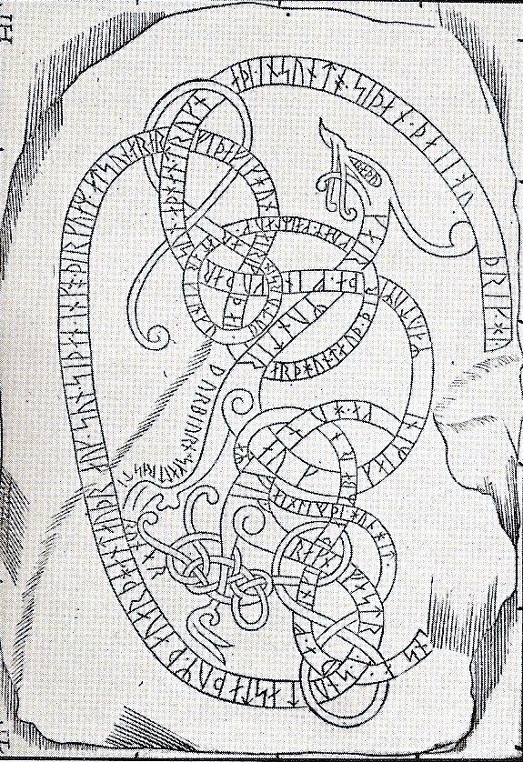 Runestone U 29, Wessén, E.; Jansson, S. B. F. (1940-1943). Sveriges runinskrifter: VI. Upplands runinskrifter del 1. Stockholm: Kungl. Vitterhets Historie och Antikvitets Akademien. ISSN 0562-8016. p. 35